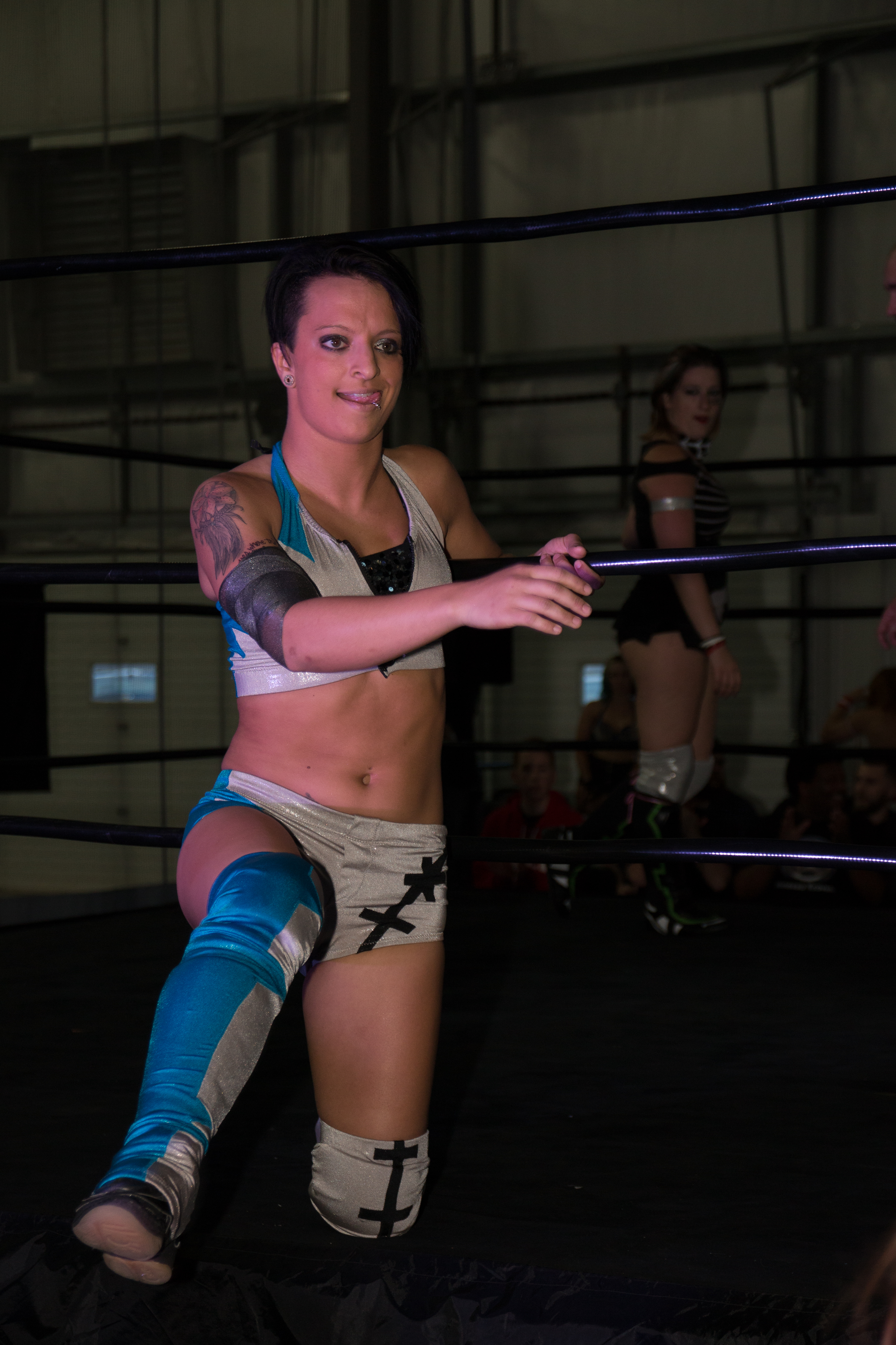 Professional wrestler Heidi Lovelace making her entrance at Smash Wrestling's Canusa 2014 show